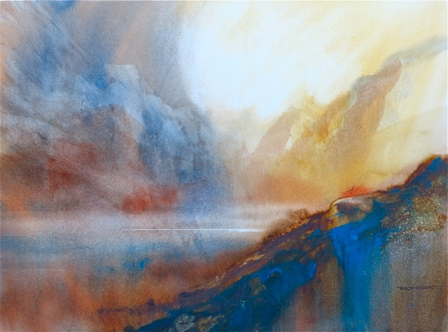 Tony Smibert, 'Lake of Lucerne', Watercolour on canvas, original size, 380 x 285mm